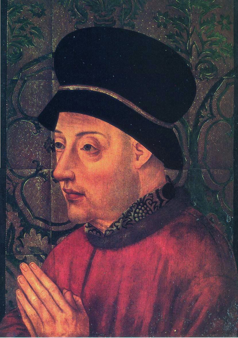 Portrait of King John I of Portugal (1357-1433)